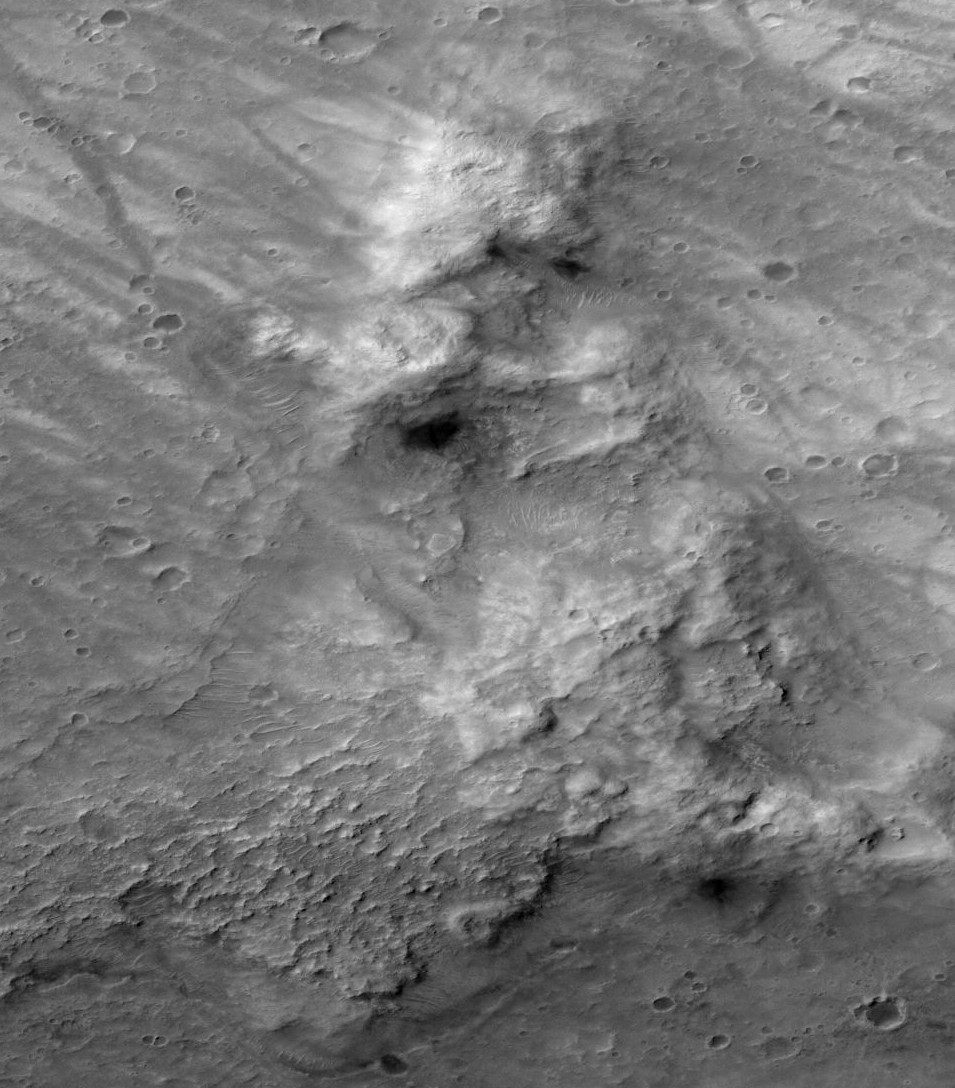 An unlabelled overhead view of the Columbia Hills. Image taken by the Mars Global Surveyor.